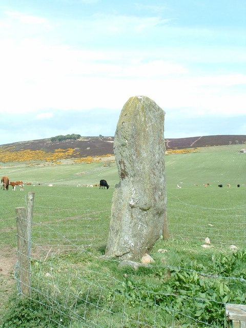 The Lang Stane of Auquhollie near Stonehaven, Scotland. Probably not, in fact, a Pictish stone in the strict sense as it is believed to have been created by Gaelic-speakers.